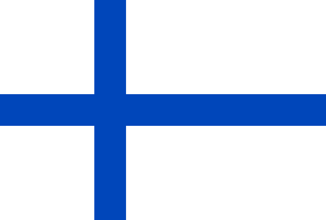 Yacht club flag